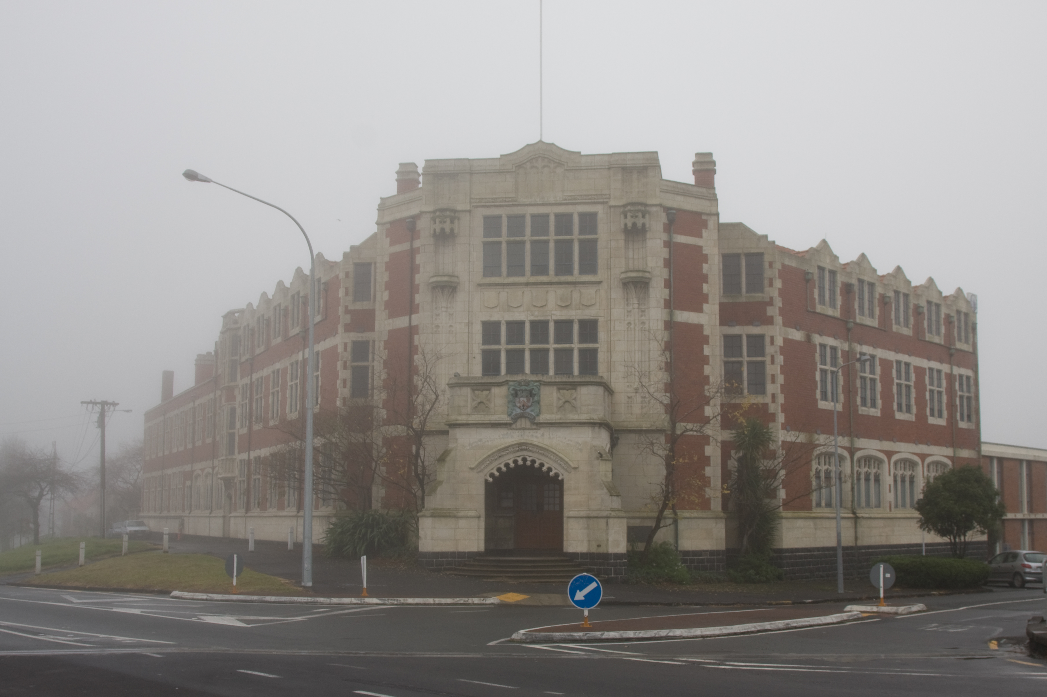 Front view of former campus of Whitecliffe College of Arts and Design in Auckland, NZ. Purchased by Church of Scientology.